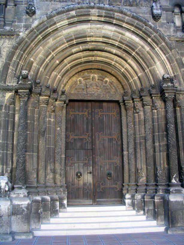 Door of the Scots Monastery, Regensburg